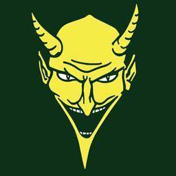 Green Devils Logo